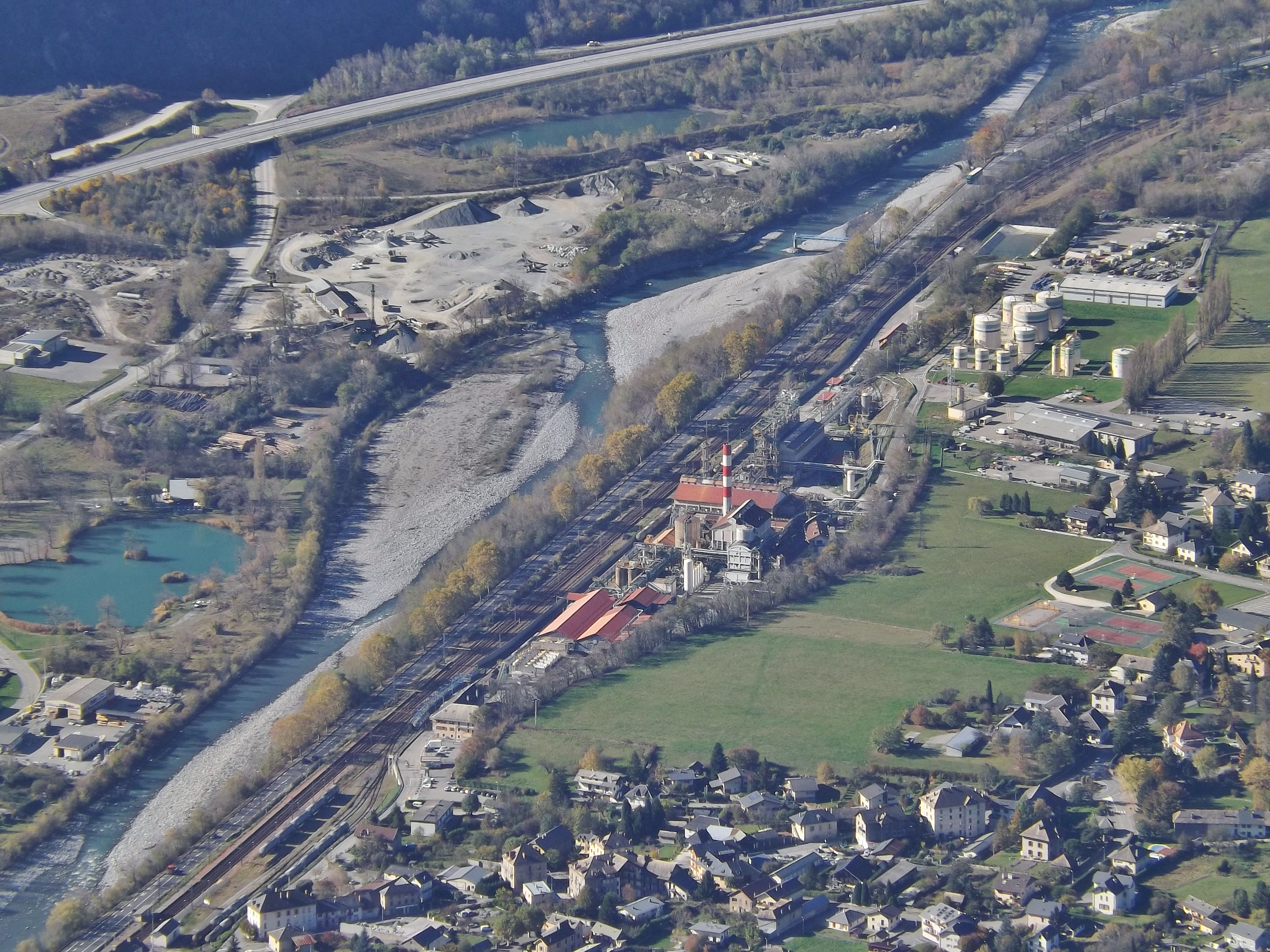 Aerian sight, from the heights of Montpascal, on the French commune of La Chambre in the Maurienne valley (Savoie), with visible the Arkema production unit, the river Arc and the A43 motorway.